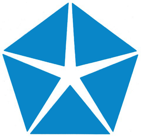 Blue portrait (per Chrysler-Plymouth) of Chrysler's Pentastar logo